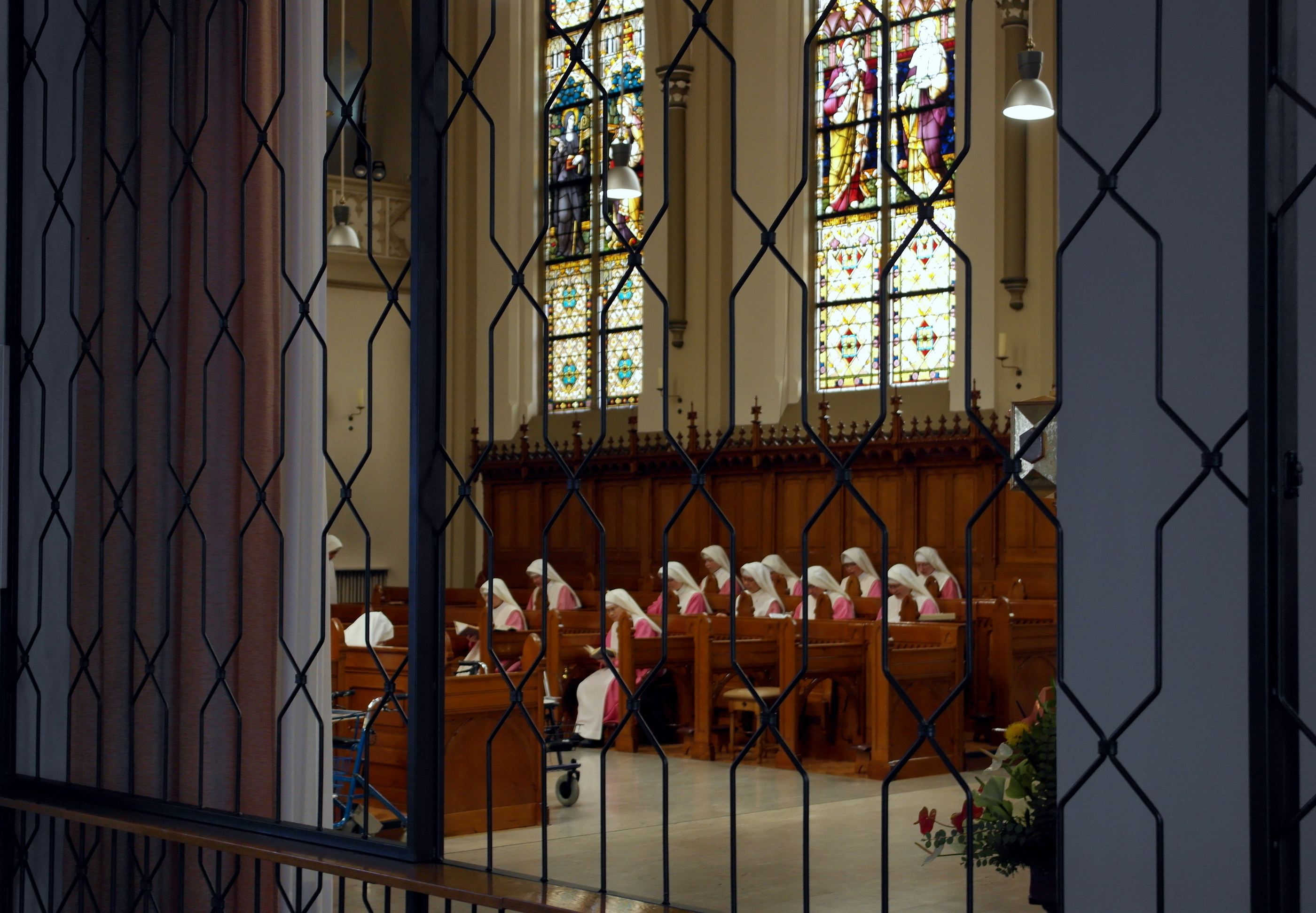 View from the devotional chapel into the private chapel of the Monastery of the Holy Ghost in Steyl (Venlo), the Netherlands. This is the mother house of the RC Congregation of the Servants of the Holy Spirit of Perpetual Adoration (Servae Spiritus Sancti de Adoratione Perpetua; SSpSAP). The devotional chapel is open to the public and allows for a view into the private chapel, where the Holy Sacrament is worshipped day and night by the "Pink Sisters".